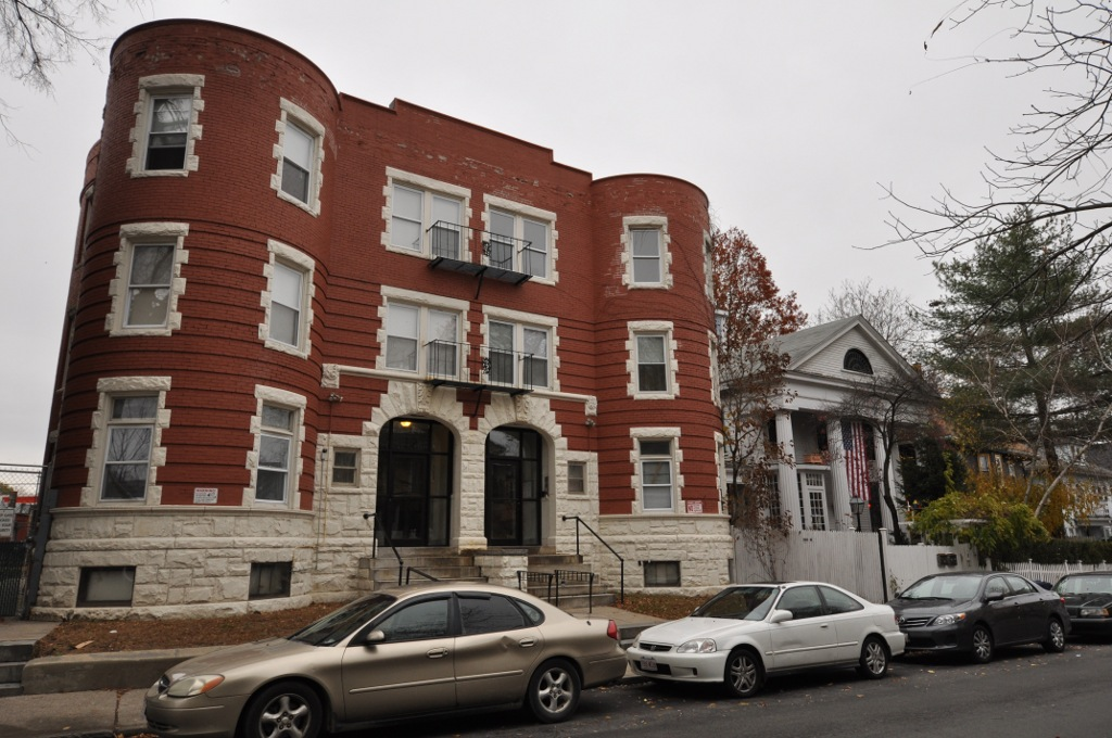 Two of the three Sherman Apartment buildings, located on Lyndhurst Street, Dorchester, Boston, Massachusetts.